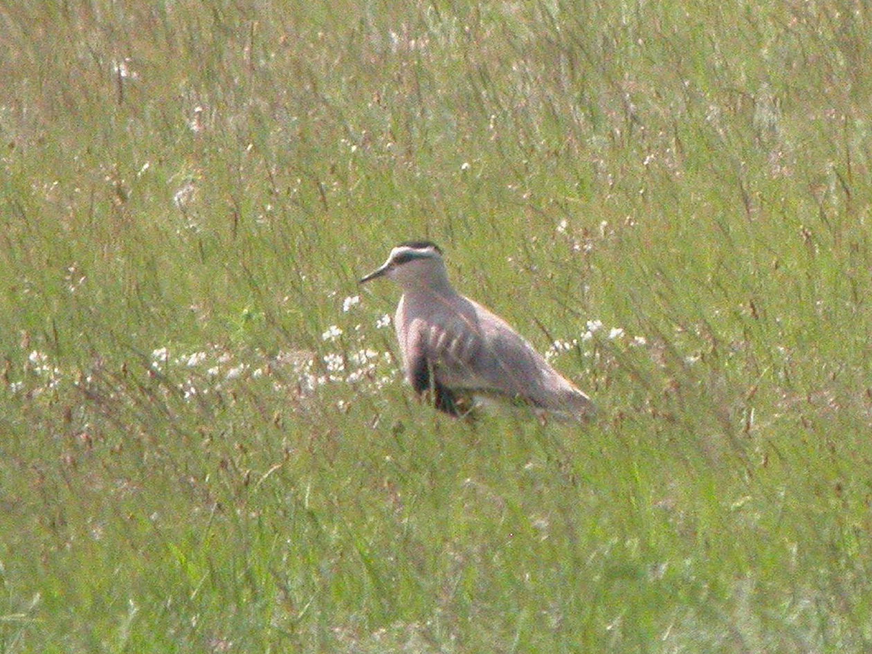 Sociable Lapwing Vanellus gregarius, south of Astana, Kazakhstan